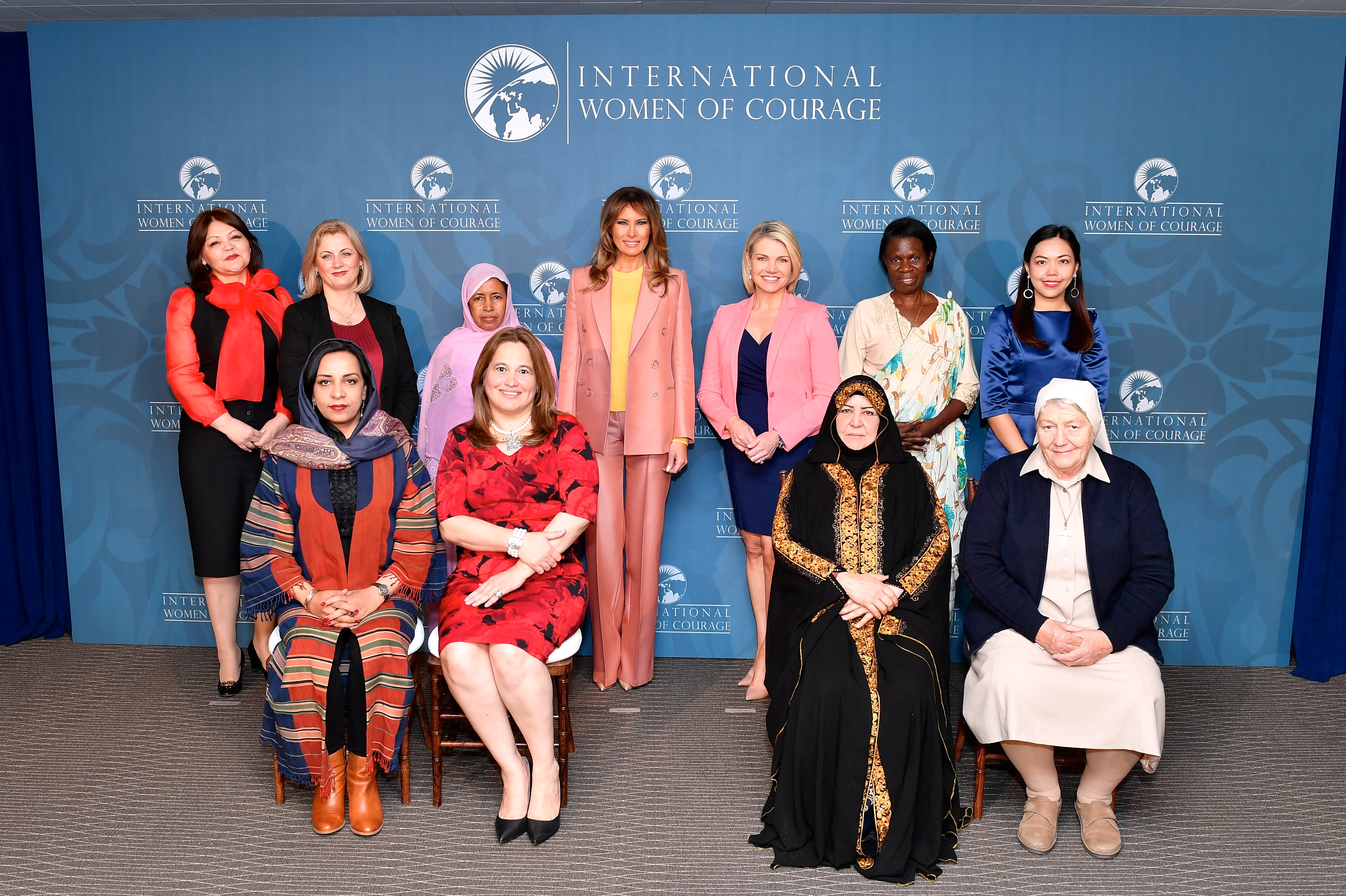 2018 International Women of Courage Awardees "On March 23, 2018, First Lady Melania Trump and Acting Under Secretary of State for Public Diplomacy and Public Affairs Heather Nauert pose for a photograph with the 2018 International Women of Courage Award recipients: (seated) Roya Sadat of Afghanistan, Dr. Julissa Villanueva of Honduras, Aliyah Khalaf Saleh of Iraq, Sister Maria Elena Berini of Italy; (standing) Aiman Umarova of Kazakhstan, Dr. Feride Rushiti of Kosovo, L’Malouma Said of Mauritania, Godelive Mukasarasi of Rwanda, Sirikan Charoensiri of Thailand; and (not pictured) Aura Elena Farfan of Guatemala."